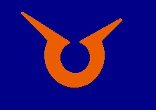 Flag of Hirogawa Wakayama